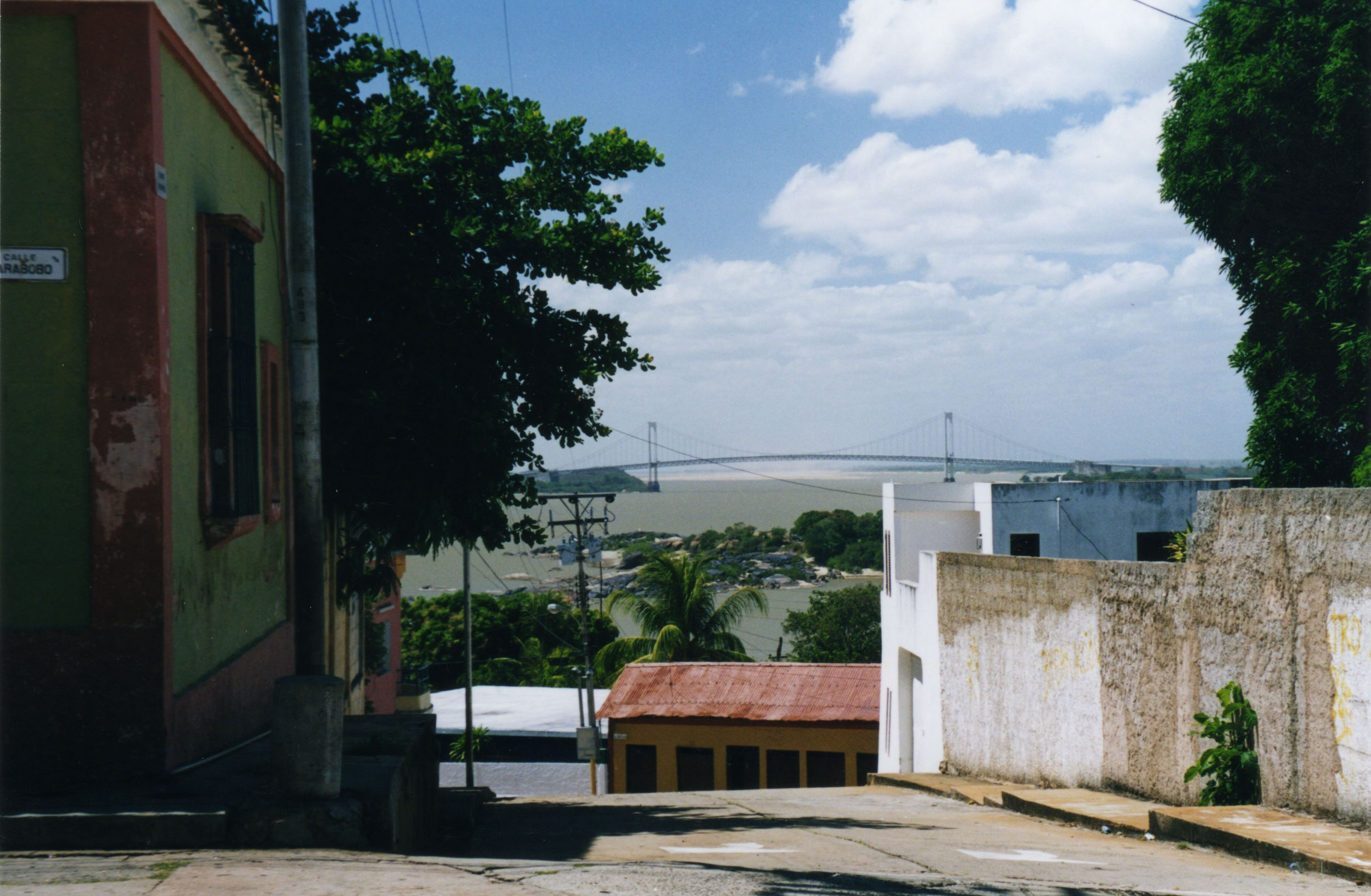 Colonial street in Ciudad Bolívar, Venezuela. View of the Orinoco river and the Angostura suspension bridge in the background.